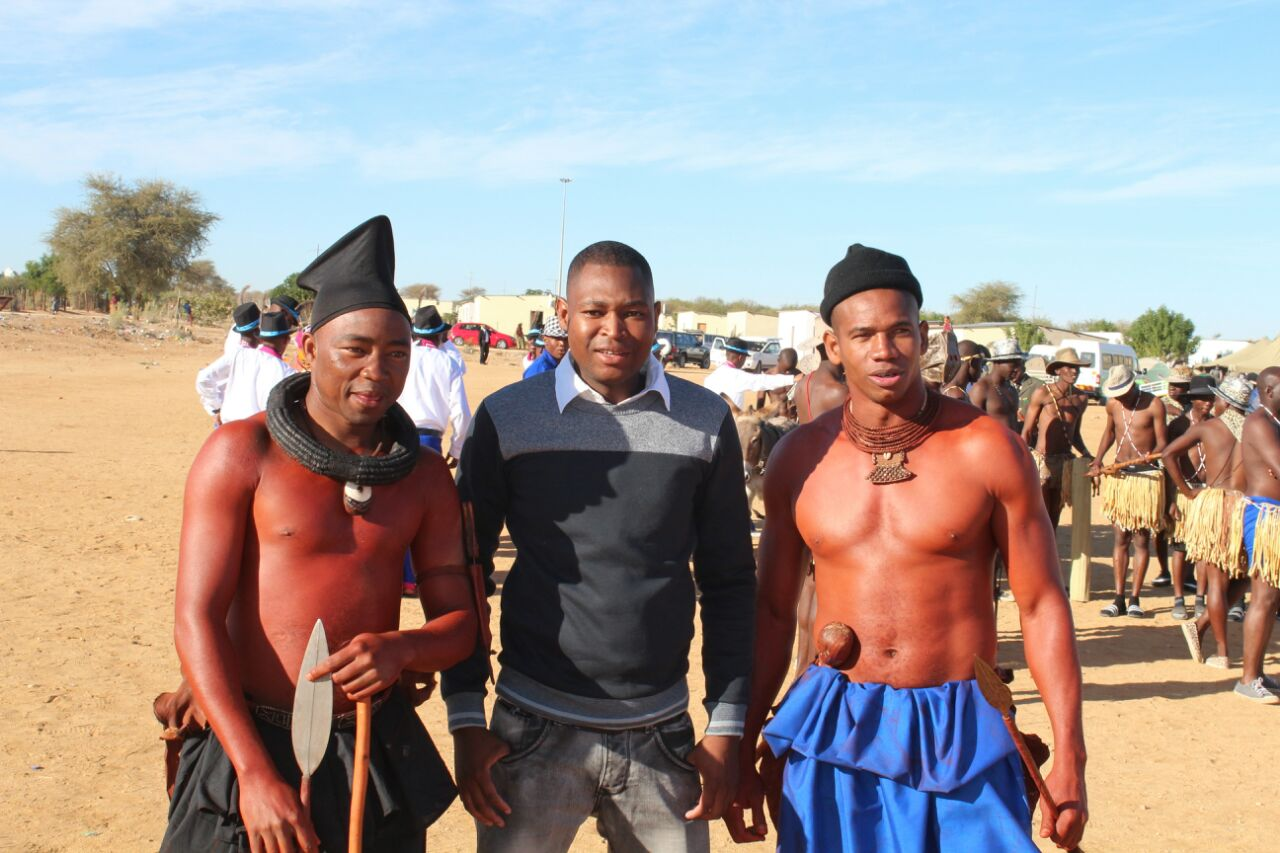 this is the ovaherero culture in Namibia This is an image of "African people at work" from Namibia